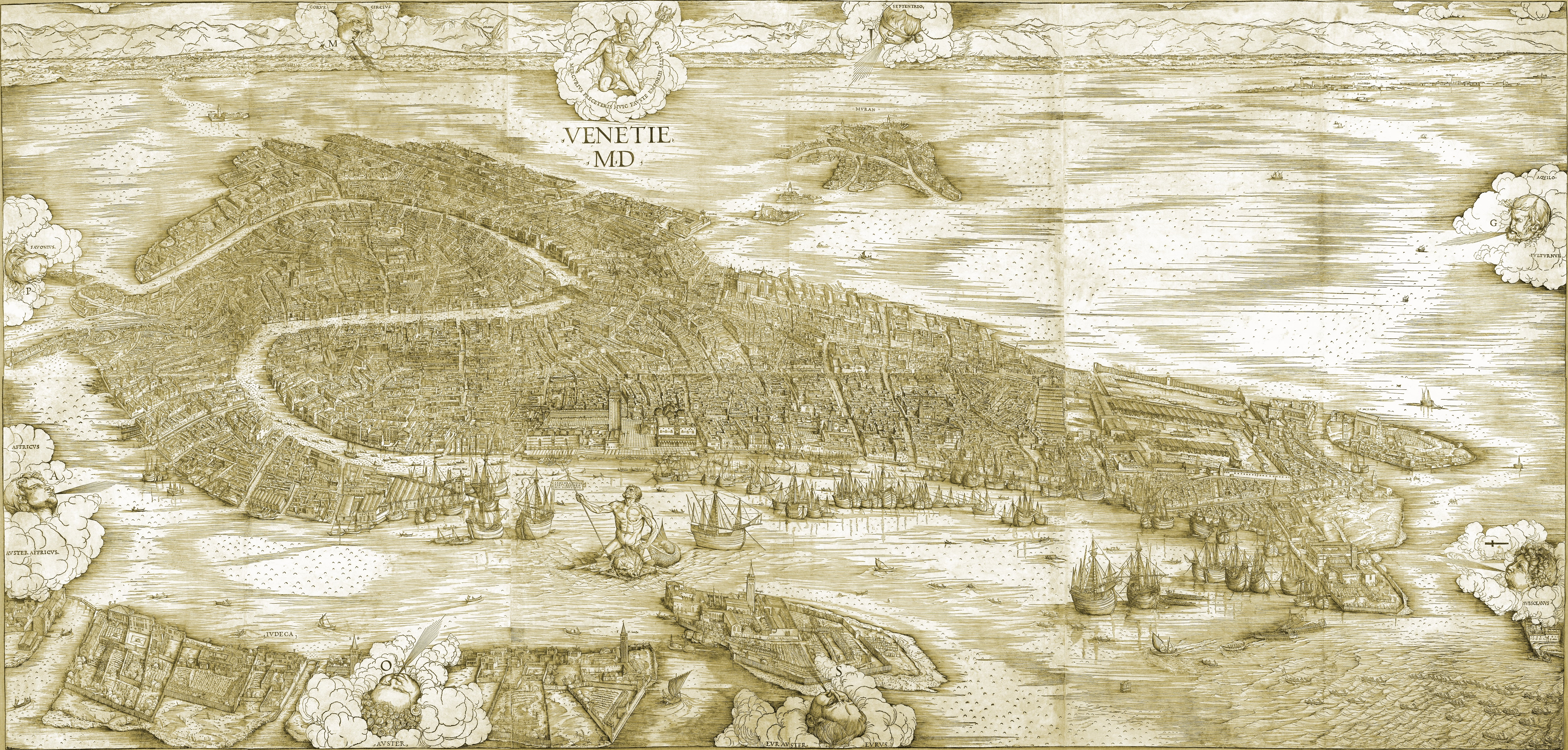 Bird's-eye view of Venice. The view is in unusually good condition.